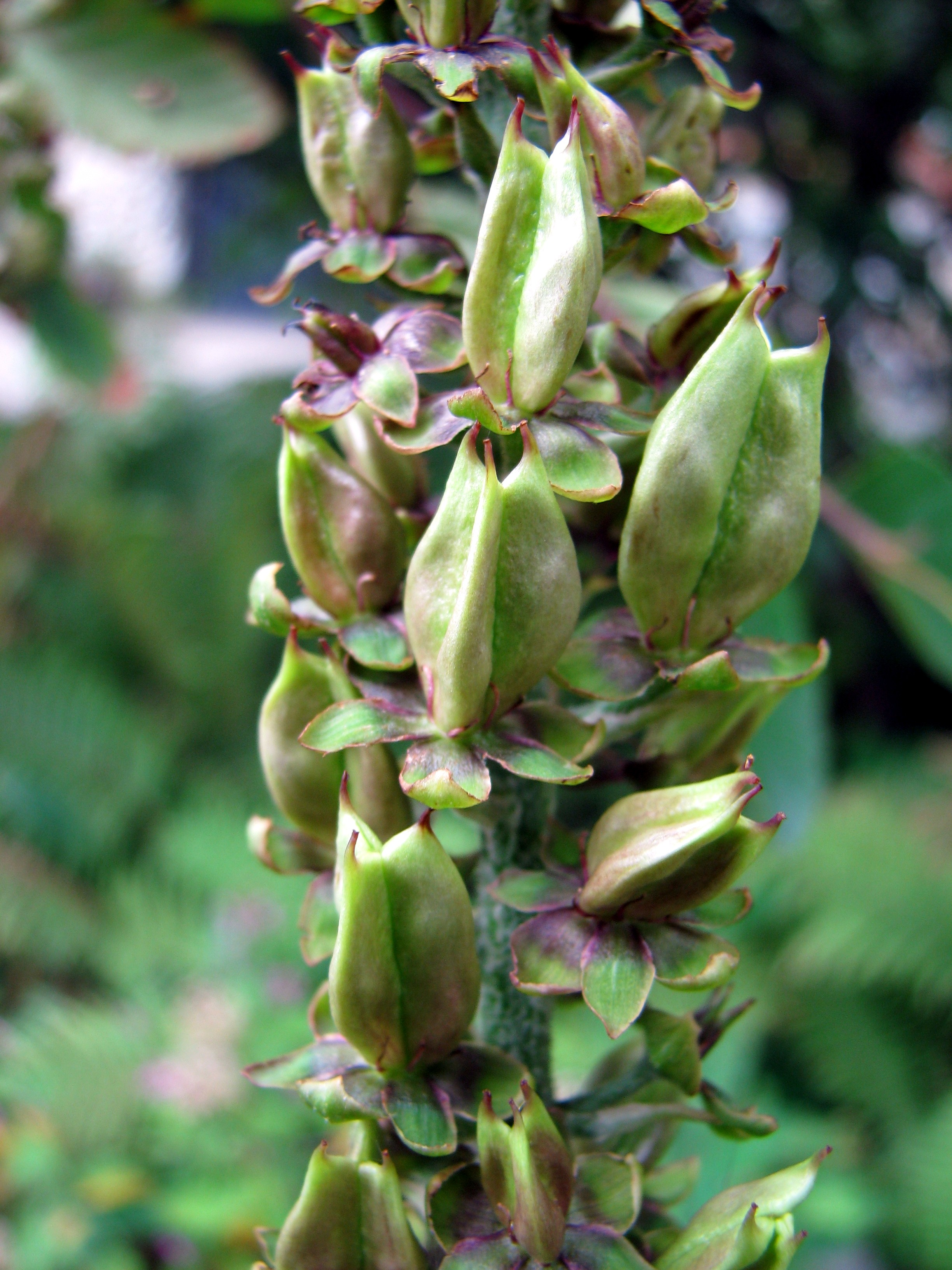 False hellebore (Veratrum nigrum), fruiting plant, cultivated in Wrocław University Botanical Garden, Wrocław, Poland.